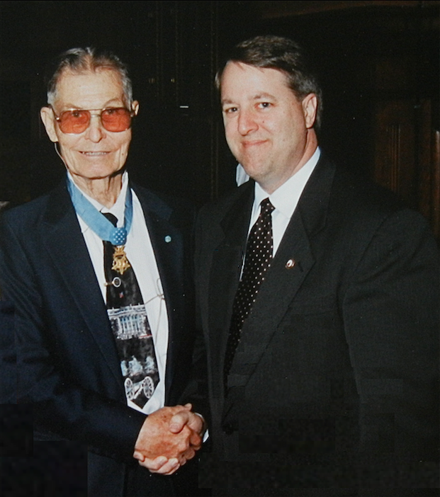 Photo of Desmond Doss (left) at the Georgia state capitol on March 20, 2000 when he spoke to the Georgia House of Representatives and was presented a special resolution authored by state representative Randy Sauder (also pictured with Doss) to honor Doss for his heroic WWII contributions.